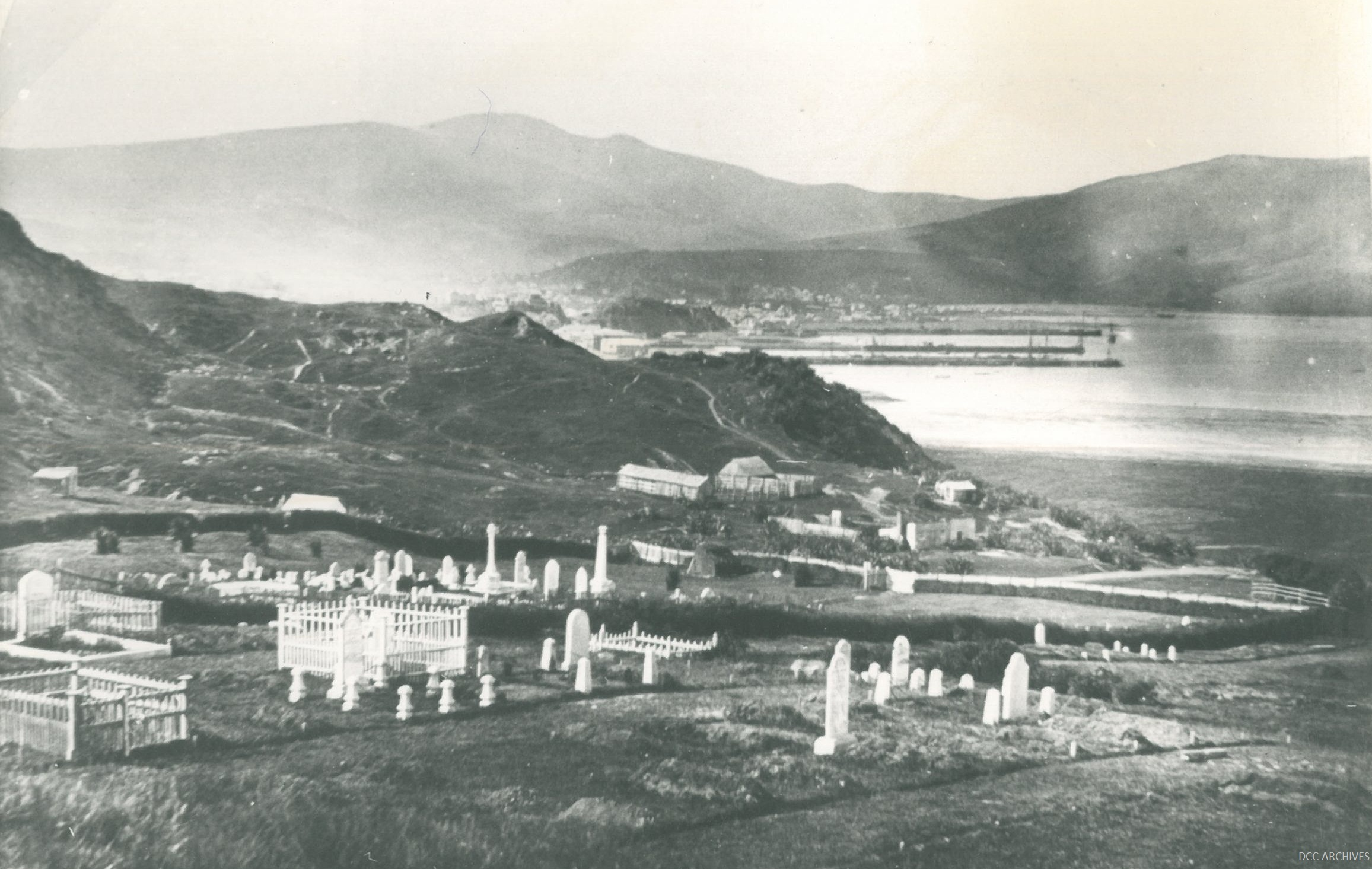 Southern end of the Town Belt, showing Southern Cemetery 1860s